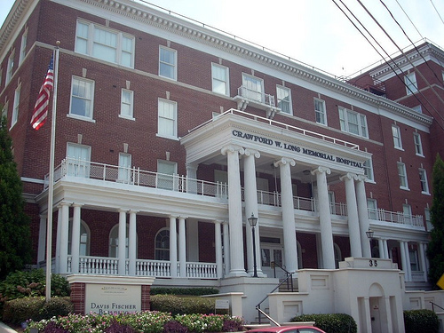 Davis-Fischer Sanitarium (Crawford Long/Emory Midtown Hospital)